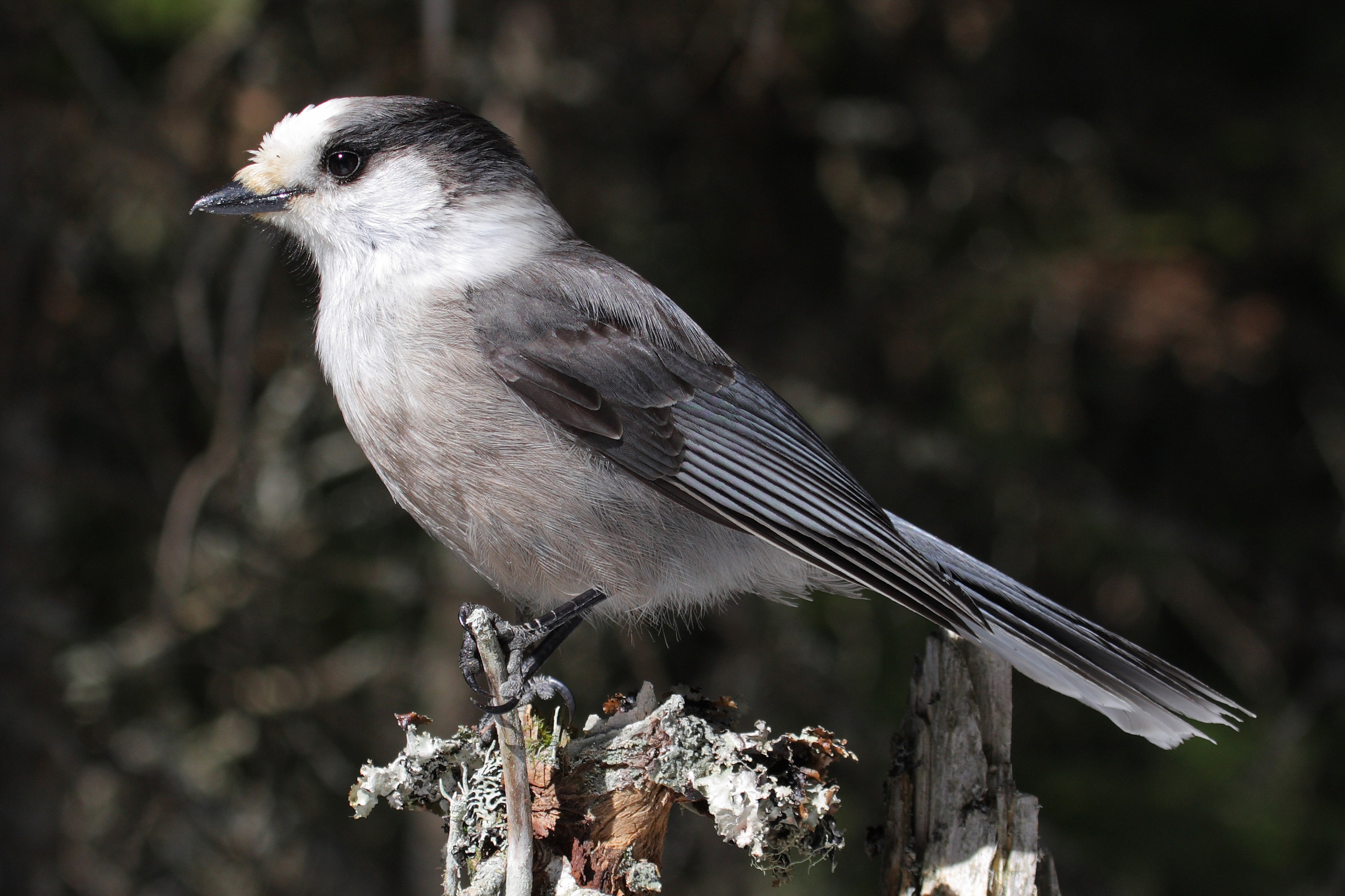 Gray Jay, Camp Mercier in Laurentides Wildlife Reserve, Quebec, Canada.